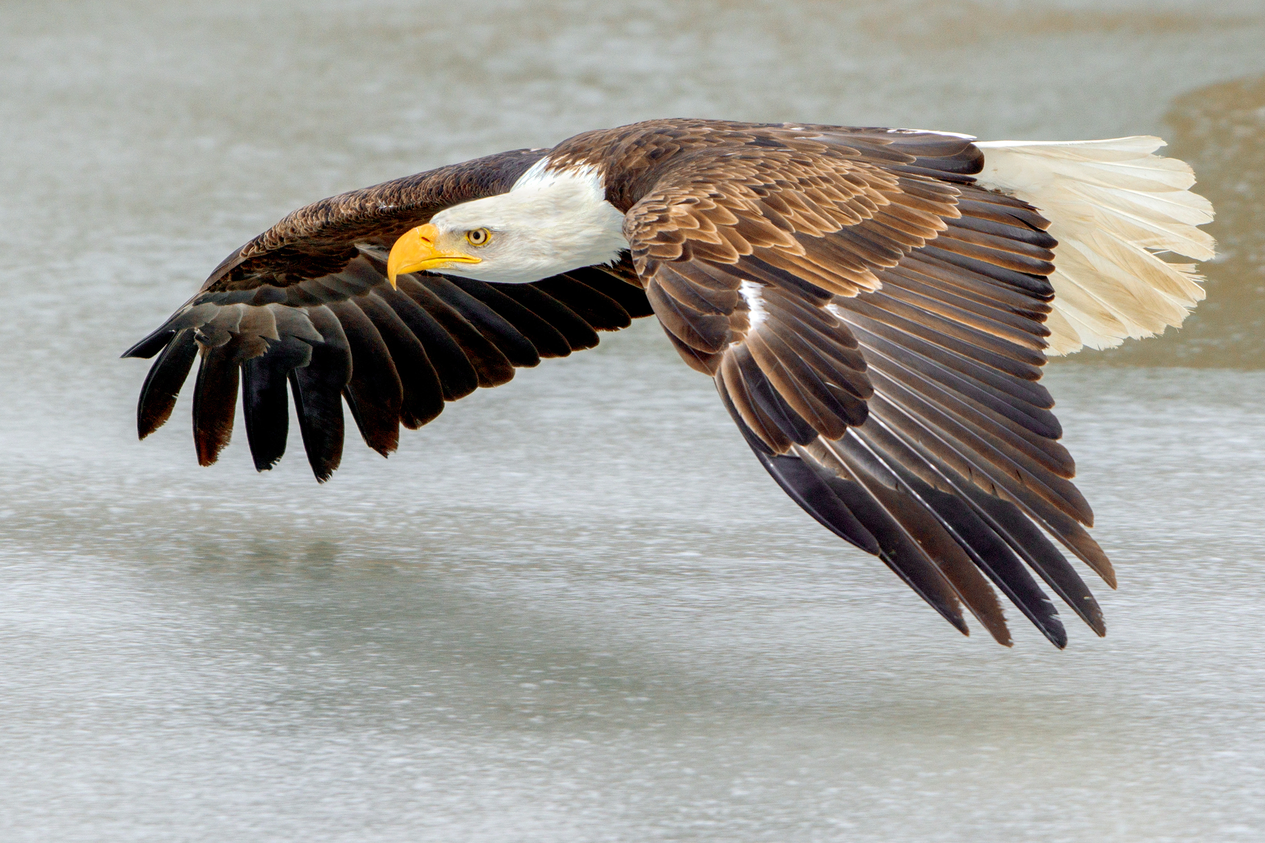 Bald eagle in flight, Ontario, Canada